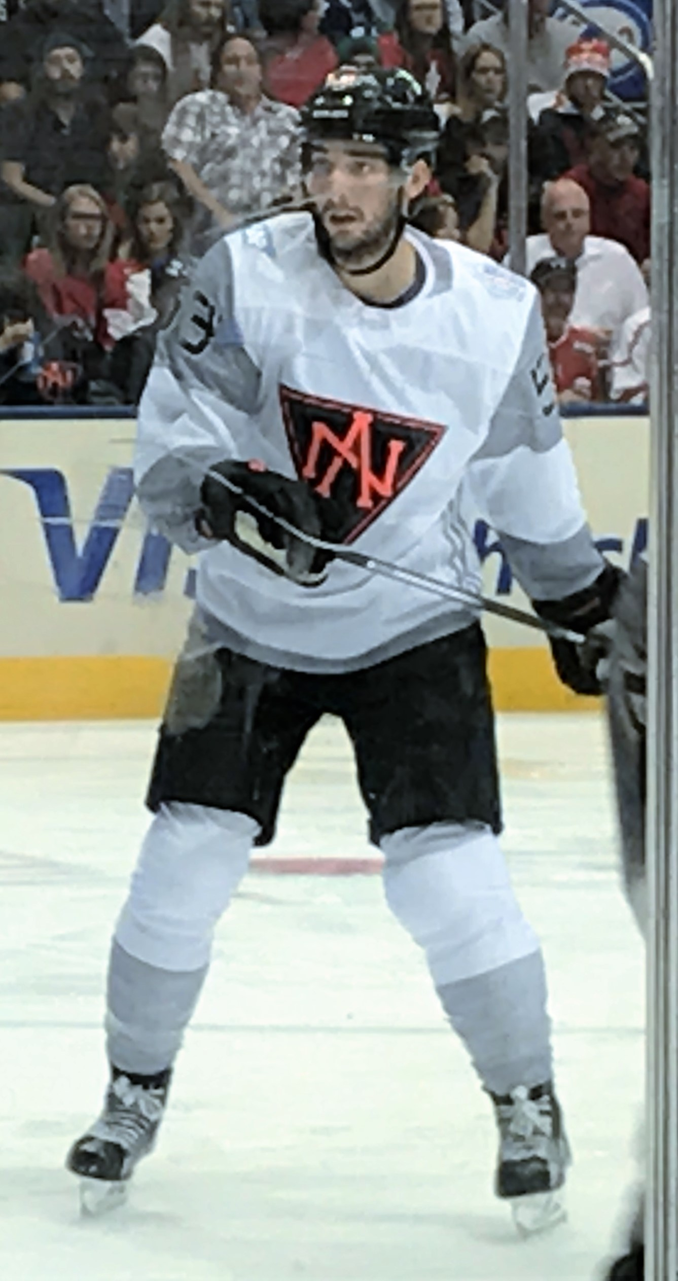 Shayne Gostisbehere at the 2016 World Cup of Hockey